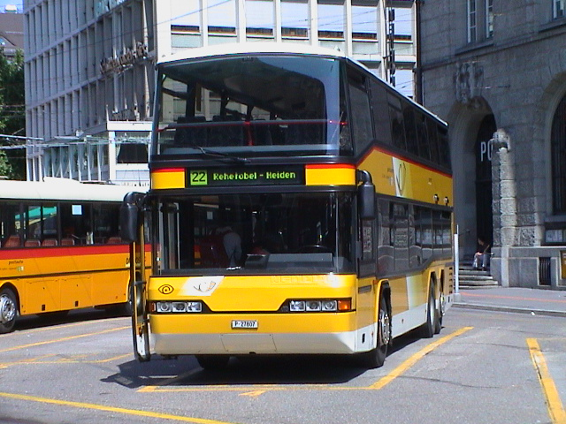 Double-decker post bus in St. Gallen, Switzerland